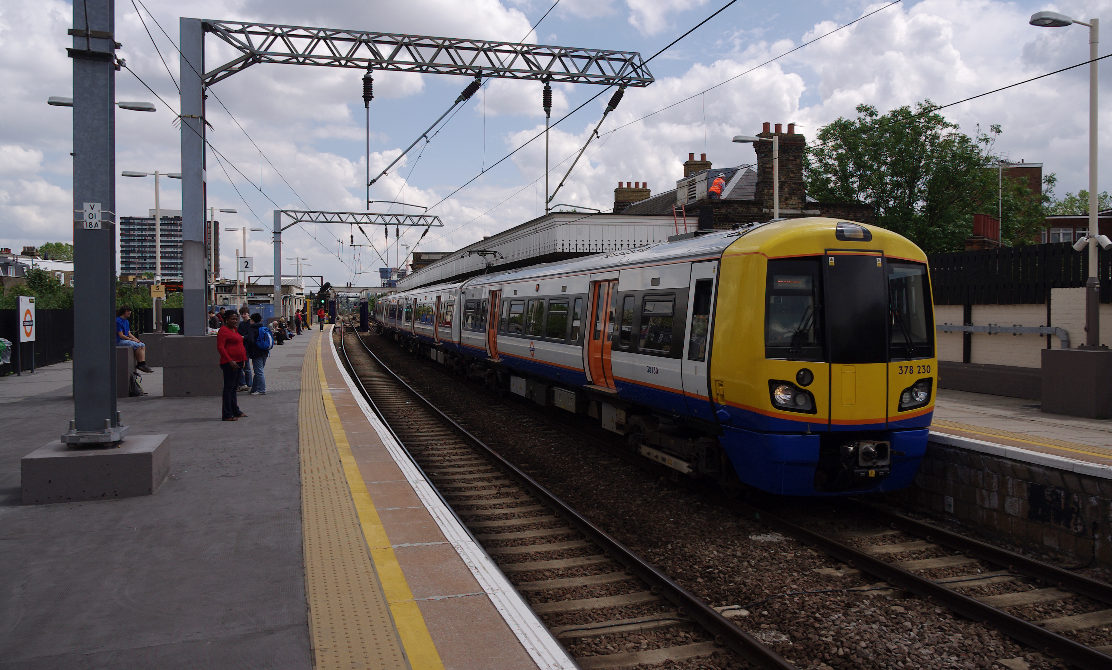 London Overground class 378 "Capitalstar" EMU 378230 at Camden Road railway station.